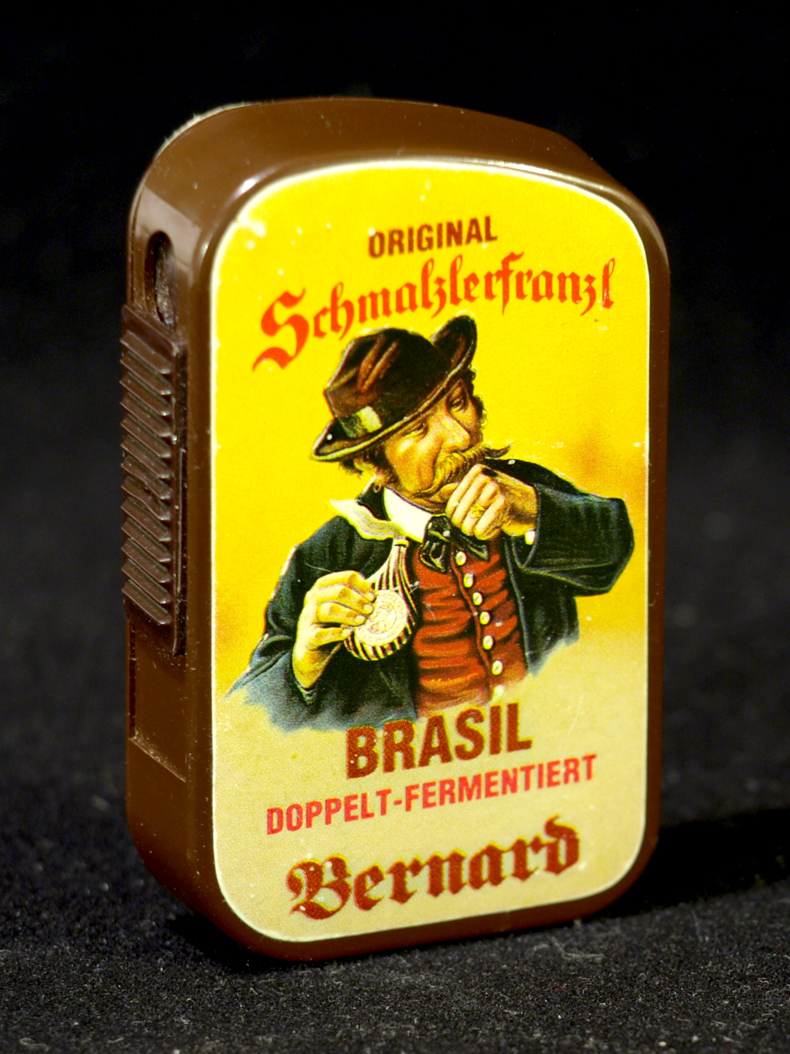 Snuff tin produced by Bernard Tabak AG with their famous "Schmalzlerfranzl Brasil"